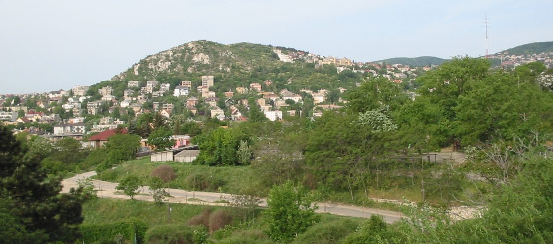 view to Sashegy, to the largest Natural Reserve Park of Budapest from Gellérthegy, Somlói út - Mihály utca